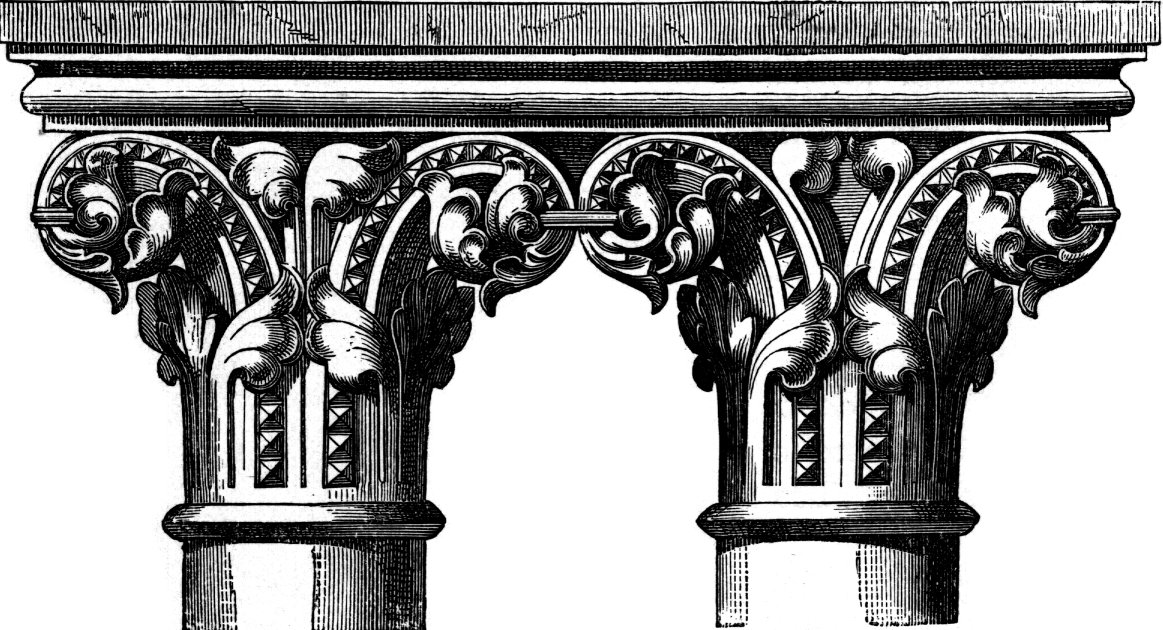 Illustration of Romanesque capitals, from Limburg.